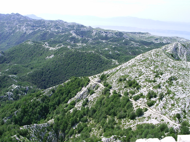 Biokovo mountains, Croatia